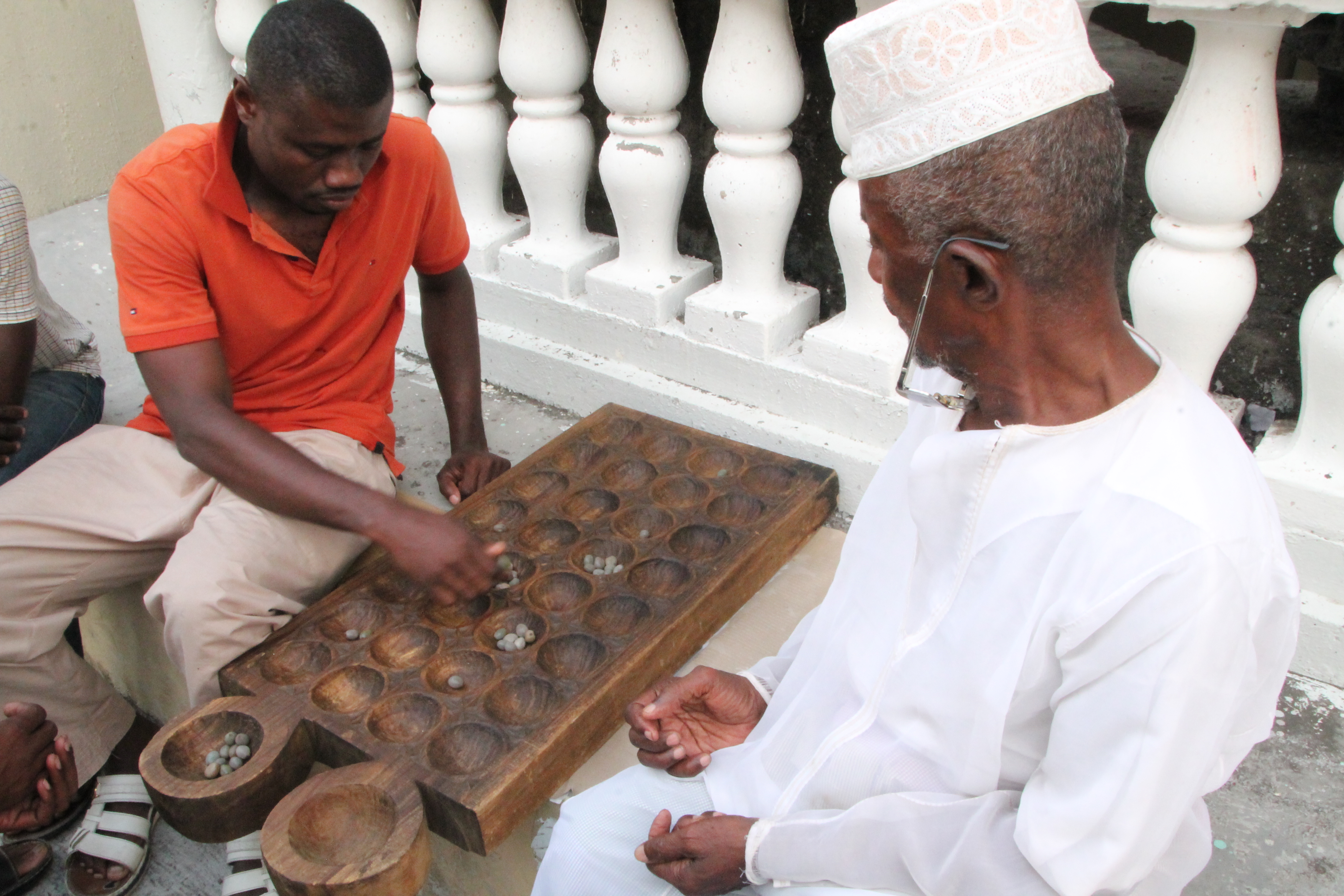 Two men play mraha game in the ancient town of Iconi This is an image with the theme "Play" from: Comoros